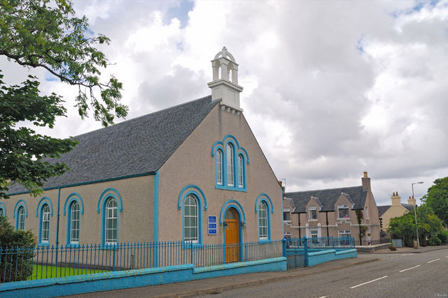 Free Presbyterian Church This church sits on the corner of Matheson Road and behind it, Scotland Street. At this time they're repainting the railings and the wall to black, whether the window frames will follow remains to be seen.